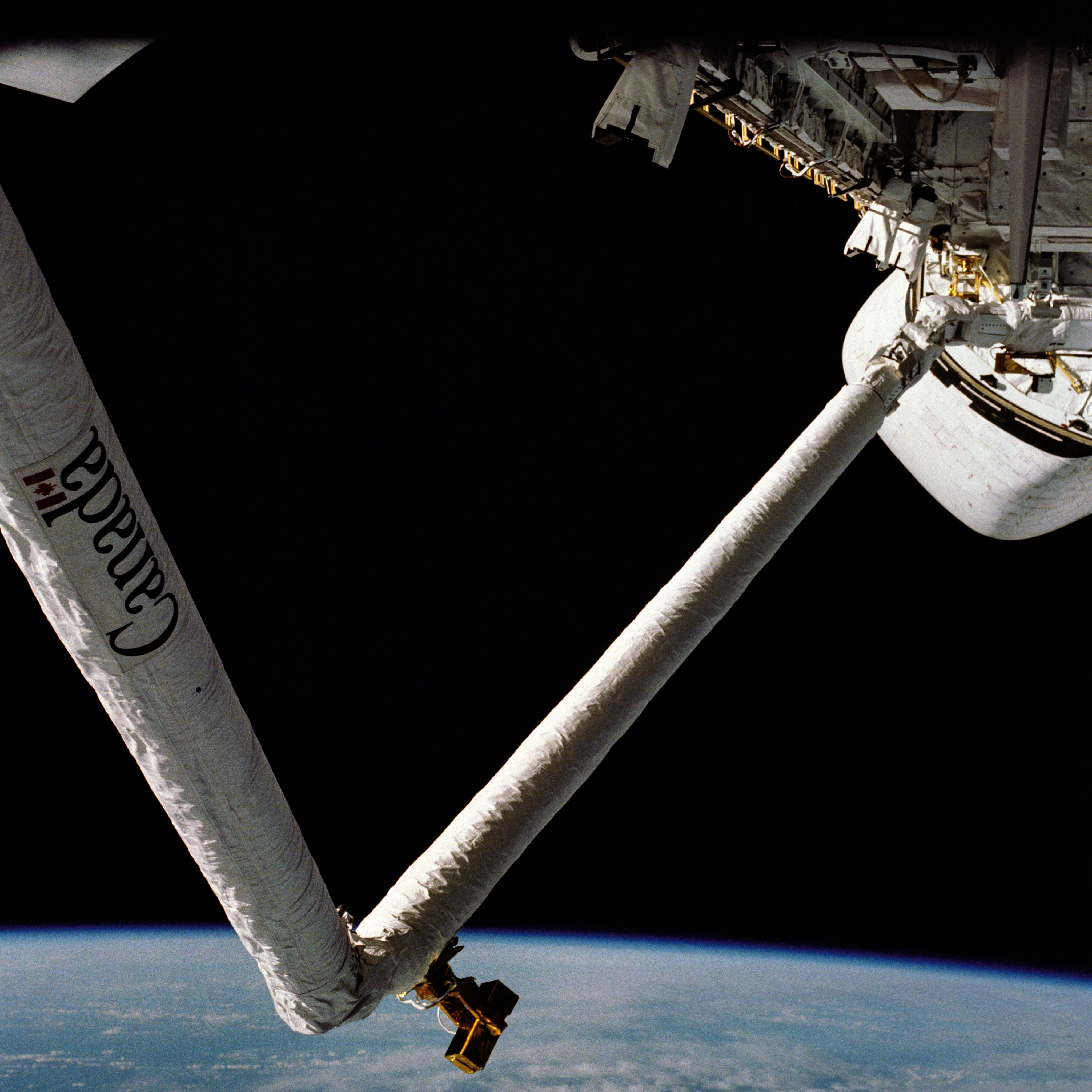 STS002-13-226 -- On Space Shuttle mission STS-2, Nov. 1981, the Canadarm is flown in space for the first time.